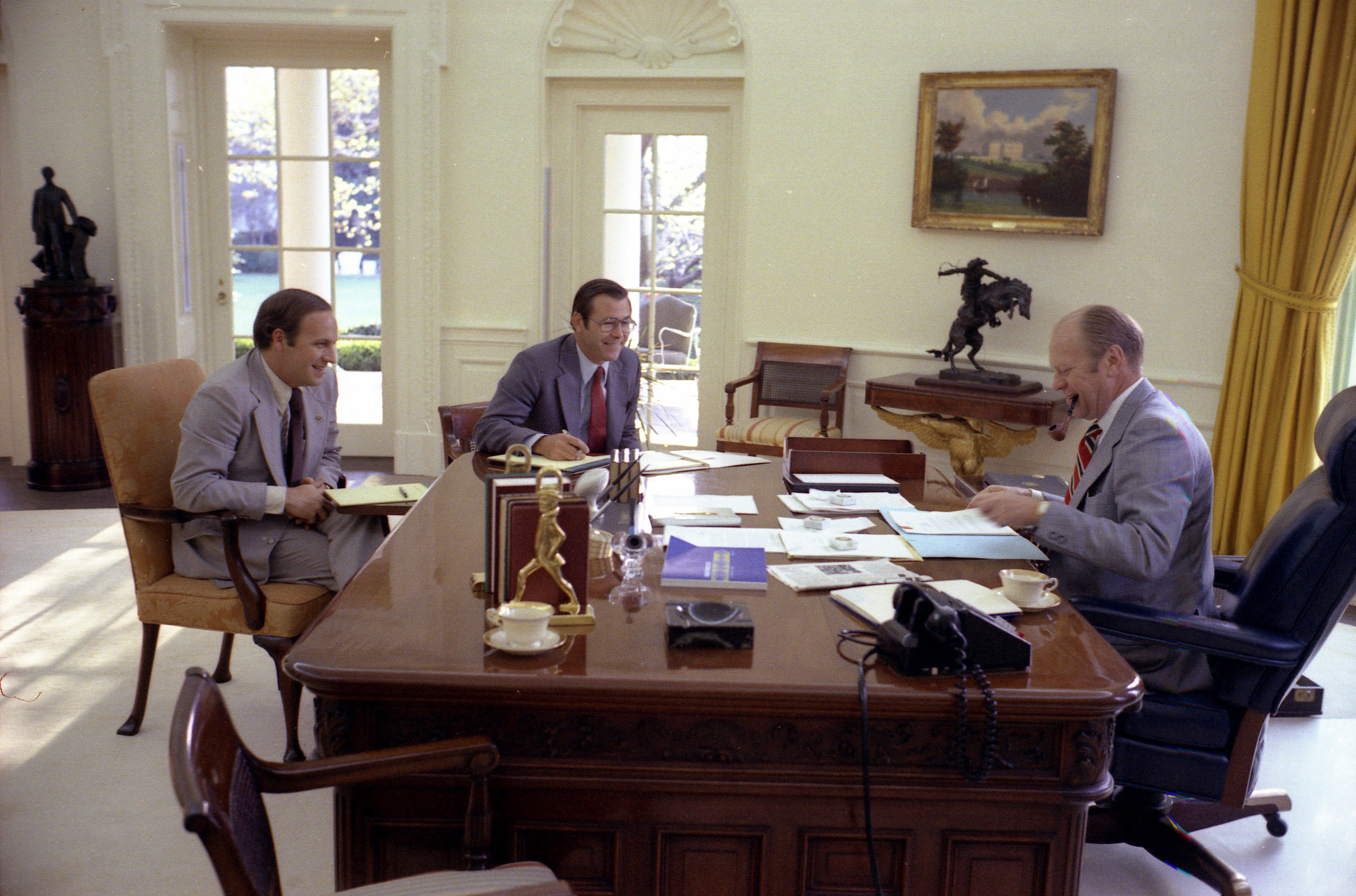 Photograph of President Gerald R. Ford meeting with Chief of Staff Donald Rumsfeld and Dick Cheney in the Oval Office.